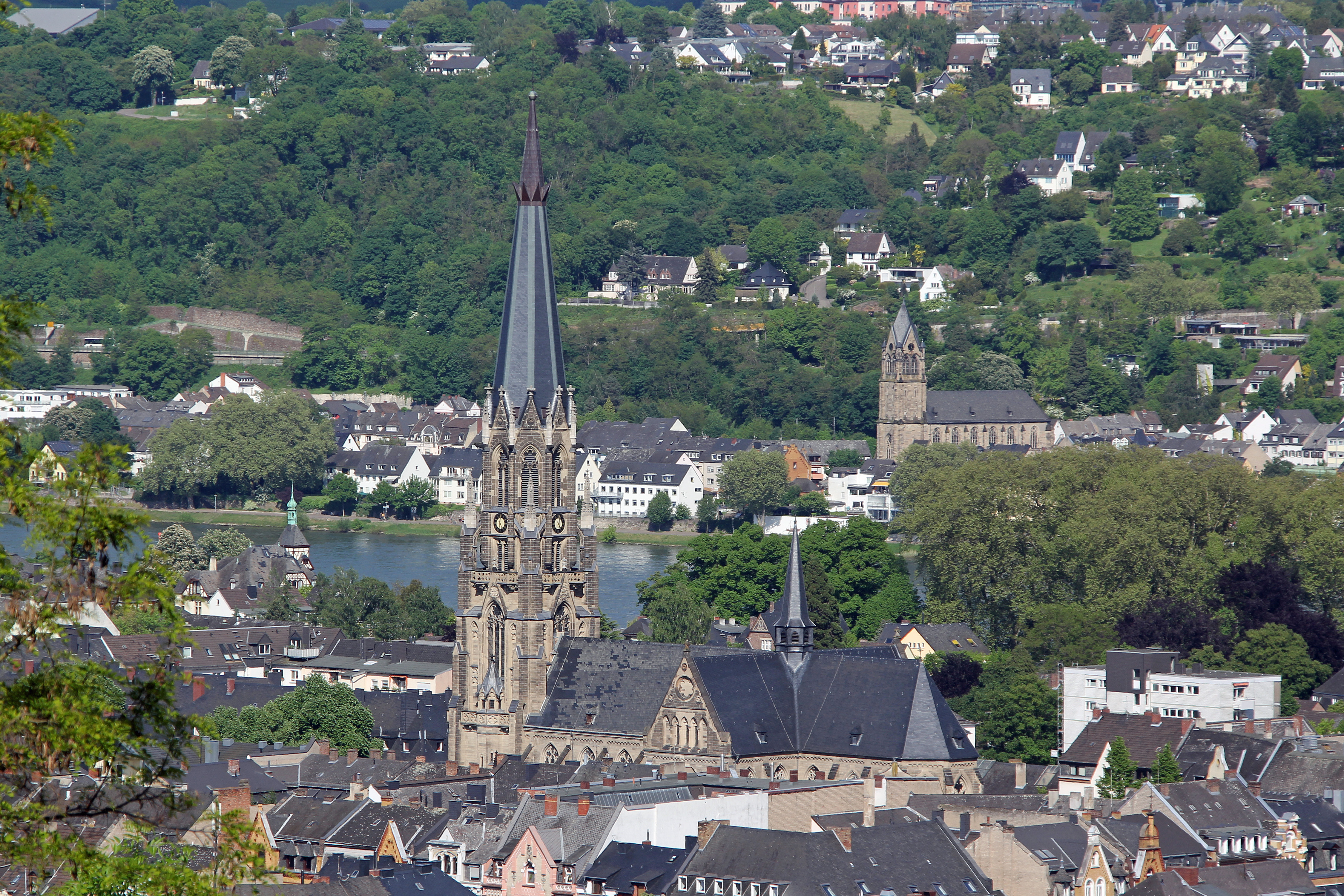 St. Josef church in Koblenz